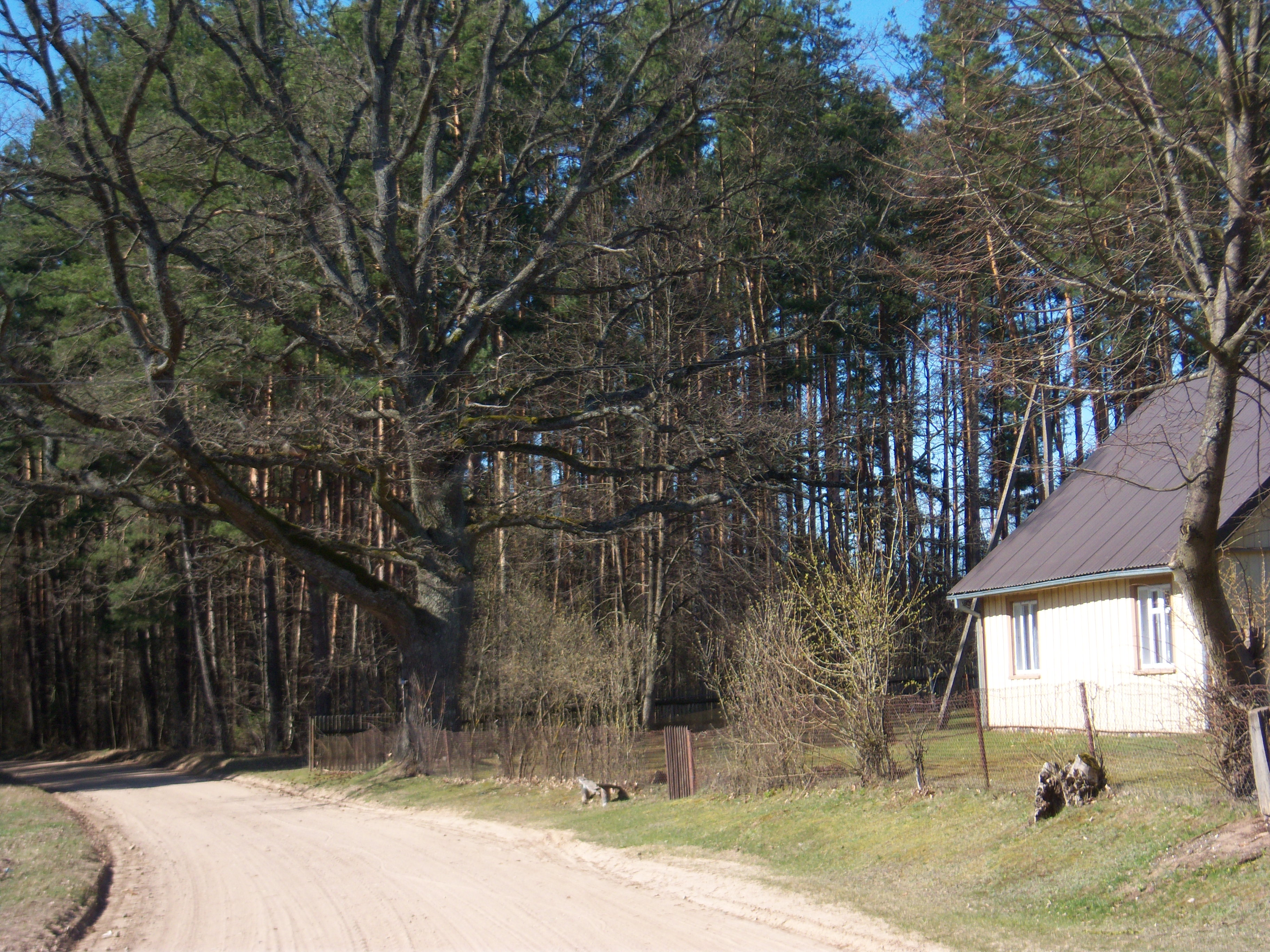 Giraitiškės, Prienai district, Lithuania